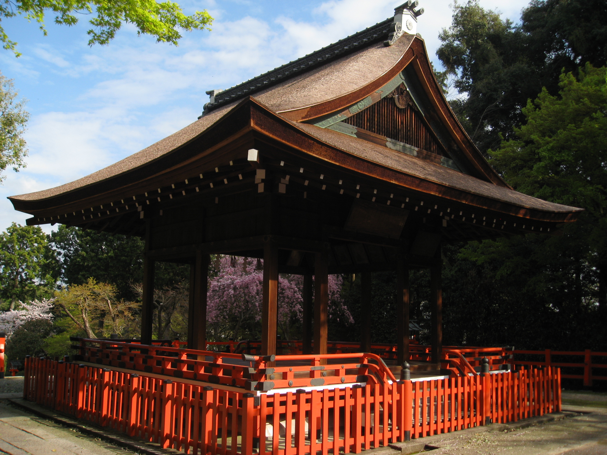 The Kagura-den (a building at Shinto shrines dedicated to Noh or the sacred kagura dance) at Kenkun Shrine (建勲神社, Kenkun-jinja), also known as Takeisao Shrine, in Kyoto, Japan. Picture was taken with a Canon Power Shot SD850 IS digital Elph camera.